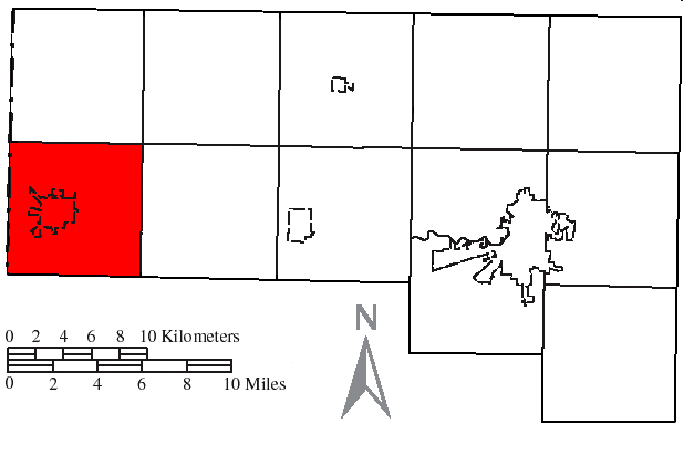 Made by the US Census and modified by myself